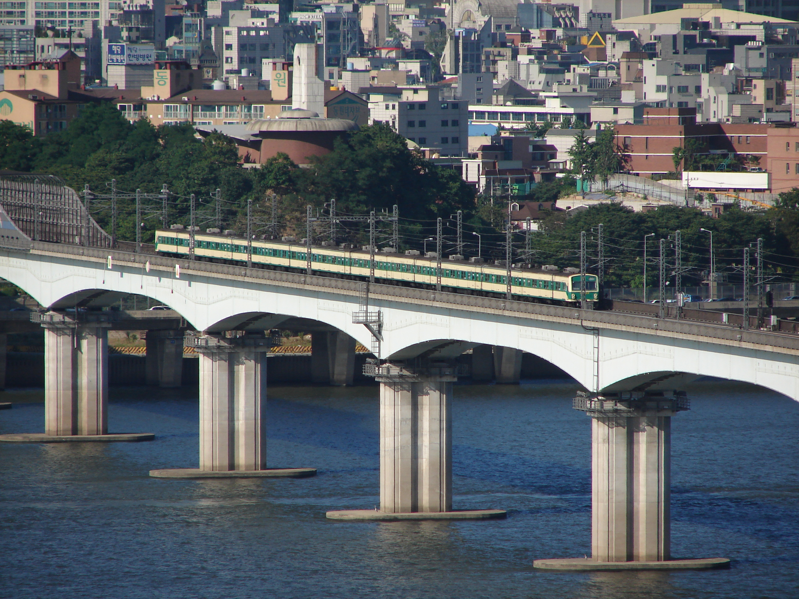 The Dangsan Railway Bridge (당산철교) crosses the Han River in Seoul. It is used exclusively by Seoul Subway Line 2. Immediately on the south side of the bridge is Dangsan Station in Yeongdeungpo-gu, which is on an elevated platform. Hapjeong Station, a subterranean station in Mapo-gu, is located approximately 600 meters north of where the bridge makes landfall. Photo taken by E Figueroa at 15 Apr 2007.